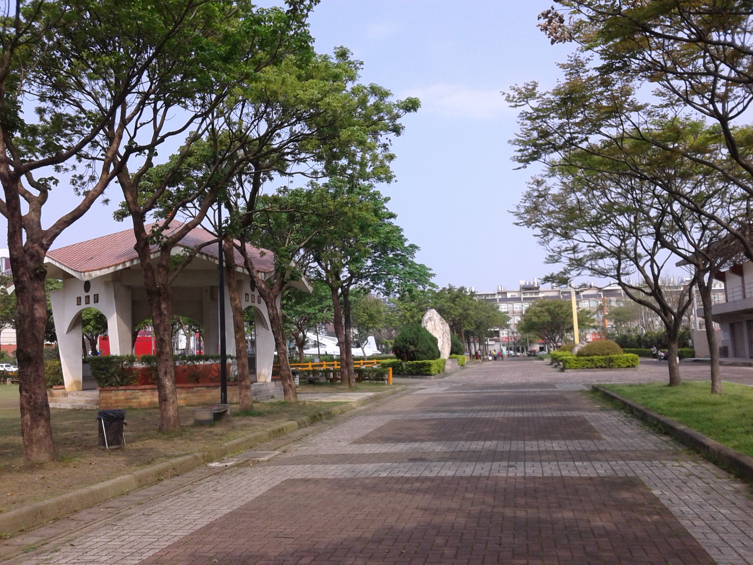 龍潭運動公園 Longtan Sports Park